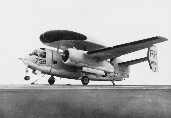 A U.S. Navy Grumman WF-2 Tracer (BuNo 148921) of Airborne Early Warning Squadron VAW-11 Det.G "Early Eleven" is launched from the aircraft carrier USS Oriskany (CVA-34). VAW-11 Det.G was assigned to Carrier Air Group 16 (CVG-16) aboard the Oriskany for a deployment to the Western Pacific from 7 June to 17 December 1962.